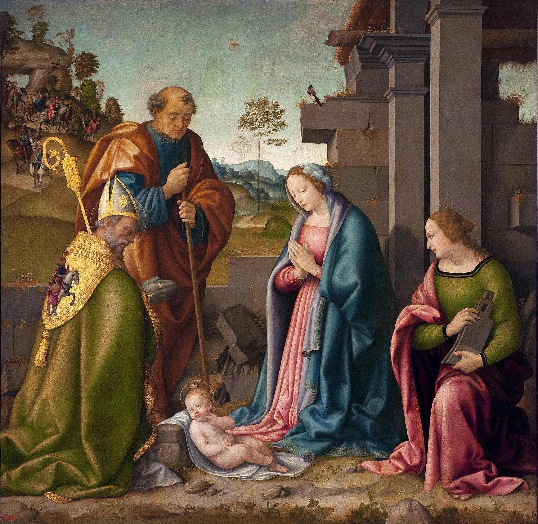 Adoration of the Christ Child with st Barbara and st Martin.